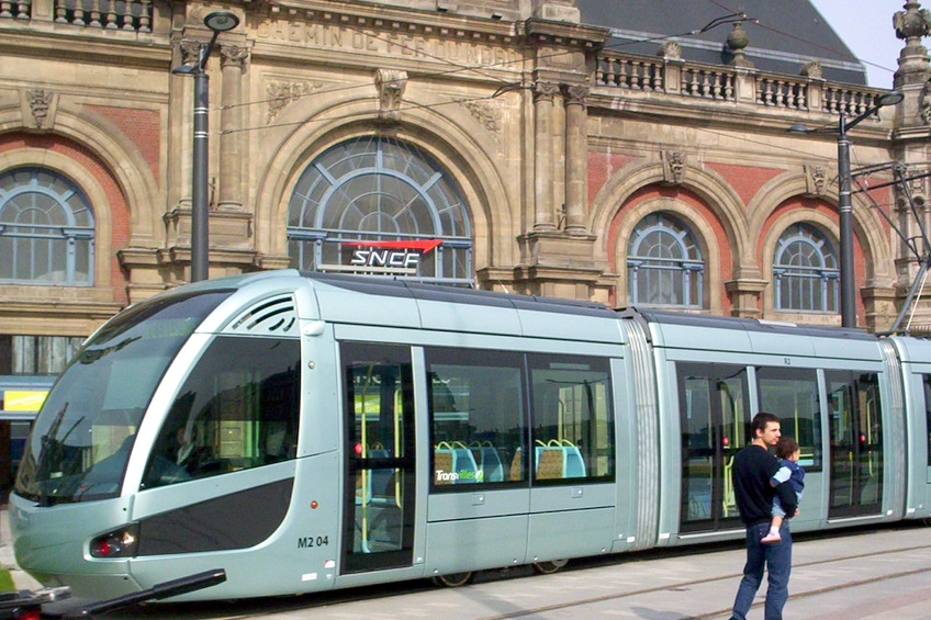 Valenciennes.